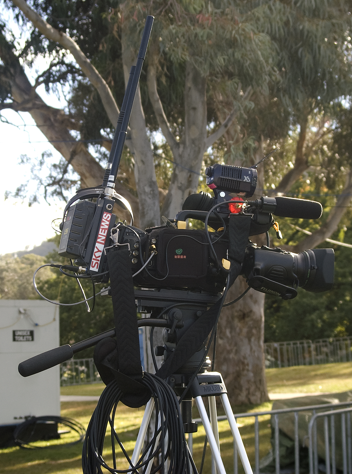 Sky News television camera.